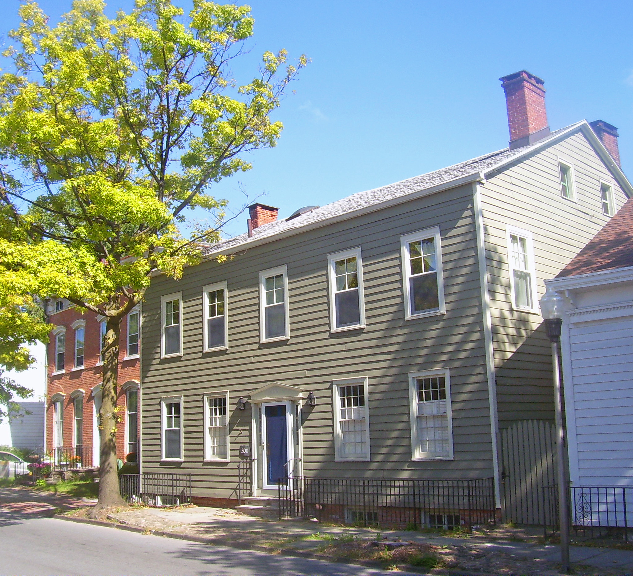 Houses in the former Clinton Avenue Historic District, now part of the Stockade District, Kingston, NY, USA